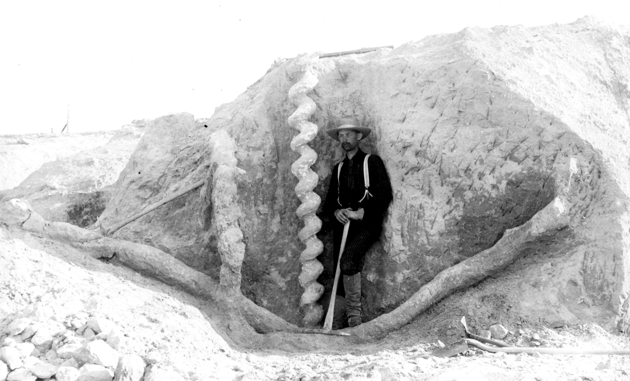 Daemonelix burrows, Miocene of Nebraska, USA (original vintage photo owned by the University of Nebraska; photo provided here, for geoscience education purposes, courtesy of Agate Fossil Beds National Monument). Daemonelix burrows are commonly called “Devil’s corkscrews”. These distinctive, large, spiral burrows were made by an ancient species of terrestrial beaver. The spiraled portion of these trace fossils is usually about 1.5 to 2 meters tall. The base of the spiraled portion merges with a subhorizontal tube. The burrows are filled with siliciclastic sediments that are better cemented compared with surrounding materials. Stratigraphy: paleosol in the Harrison Formation, upper Middle Miocene Locality: Agate Fossil Beds National Monument, northwestern Nebraska, USA Trace fossils are any indirect evidence of ancient life. They refer to features in rocks that do not represent parts of the body of a once-living organism. Traces include footprints, tracks, trails, burrows, borings, and bitemarks. Body fossils provide information about the morphology of ancient organisms, while trace fossils provide information about the behavior of ancient life forms. Interpreting trace fossils and determination of the identity of a trace maker can be straightforward (for example, a dinosaur footprint represents walking behavior) or not. Sediments that have trace fossils are said to be bioturbated. Burrowed textures in sedimentary rocks are referred to as bioturbation. Trace fossils have scientific names assigned to them, in the same style & manner as living organisms or body fossils.